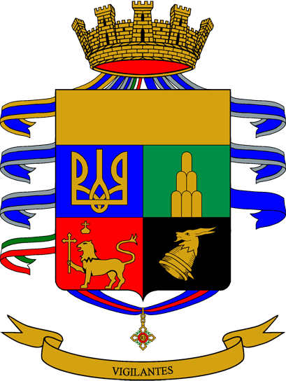 Coat of Arms of the 2° Alpini Regiment; Italian Army.